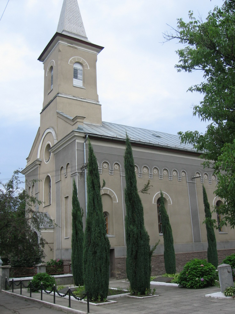 CHOP-Roman Catholic Church